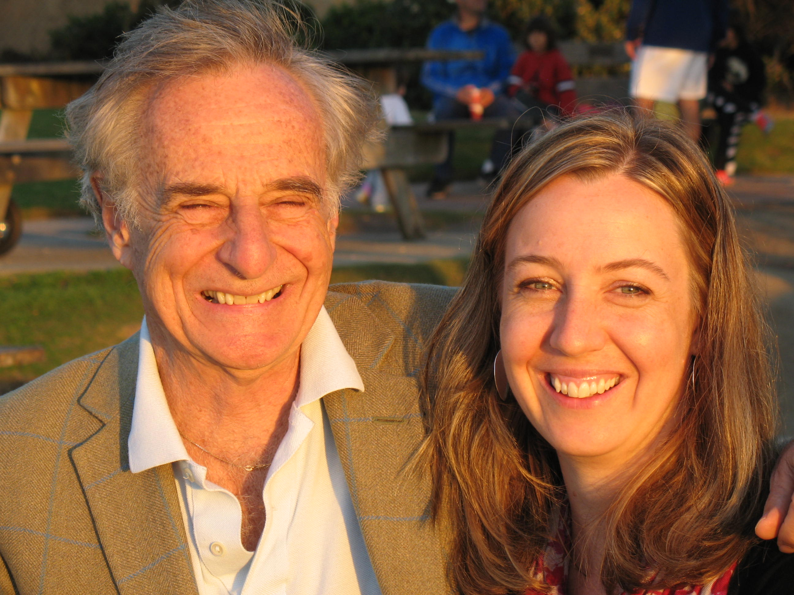 Marc Meyers {left) with his daughter and his daughter Maria Cristina (right) in 2012